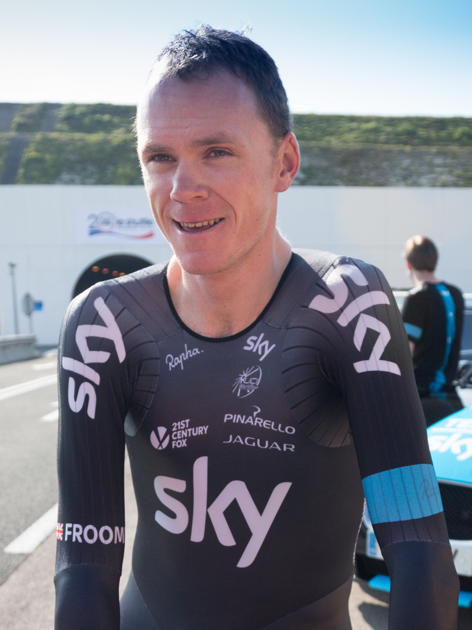 Team Sky rider and Tour de France Winner Chris Froome crosses the English Channel by bicycle, using the Eurotunnel service tunnel and support by Jaguar Cars. As the world’s leading professional cyclists depart the UK after three days of enthralling Tour de France action, Jaguar has released a short film titled “Team Sky – Cycling Under The Sea,” which documents the Team Sky leader riding from the Eurotunnel Terminal in Folkestone on England’s south-east coast, to Calais in France